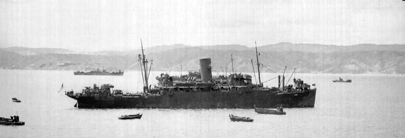 Harry Lee (AP-17) at anchor, date and location unknown.